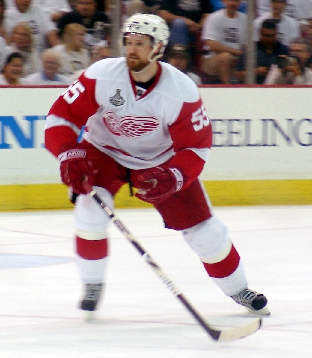 Detroit Red Wings defenseman Niklas Kronwall during the 2009 Stanley Cup Finals Game 6 at Mellon Arena in Pittsburgh, PA. June 9, 2009.